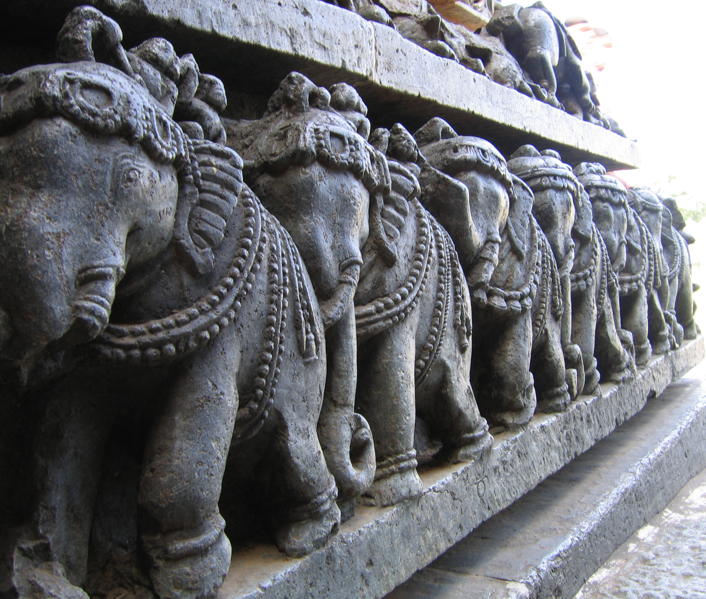 Halebidu Temple Wall Design